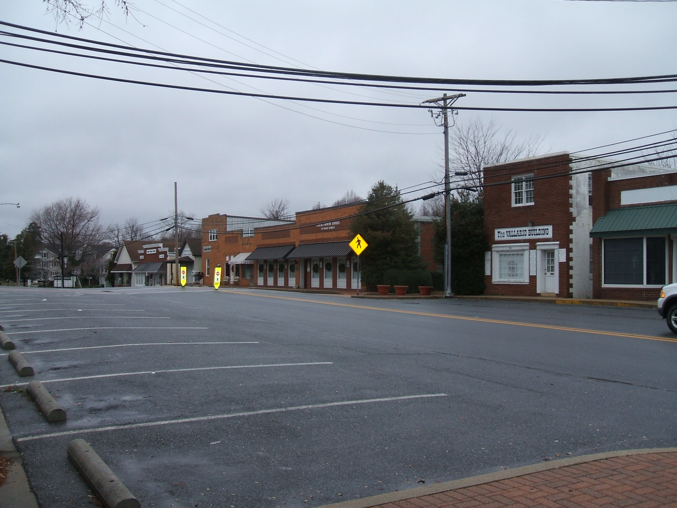 My own work